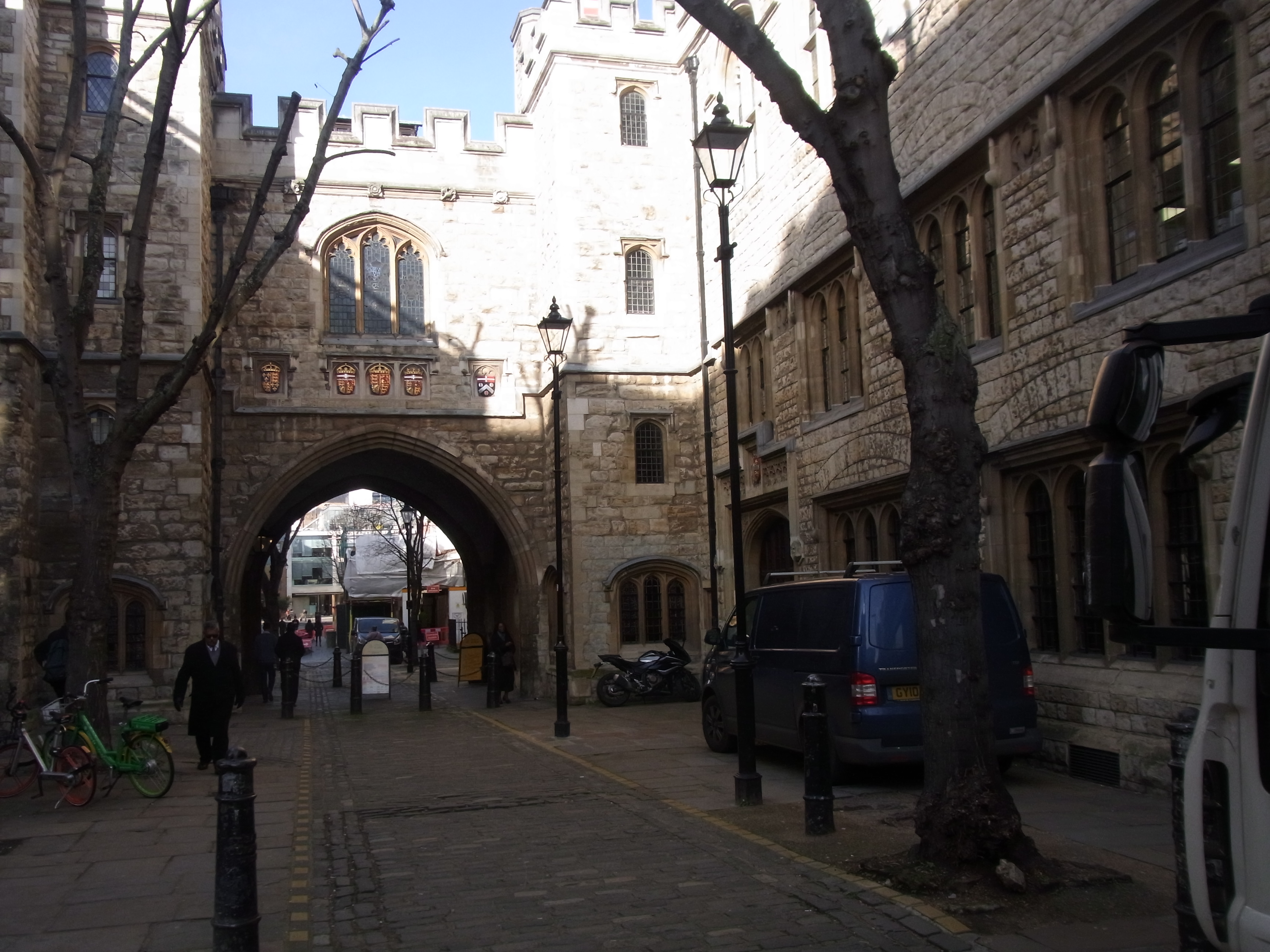 Clerkenwell Priory of the Order of Saint John 29.01.2020